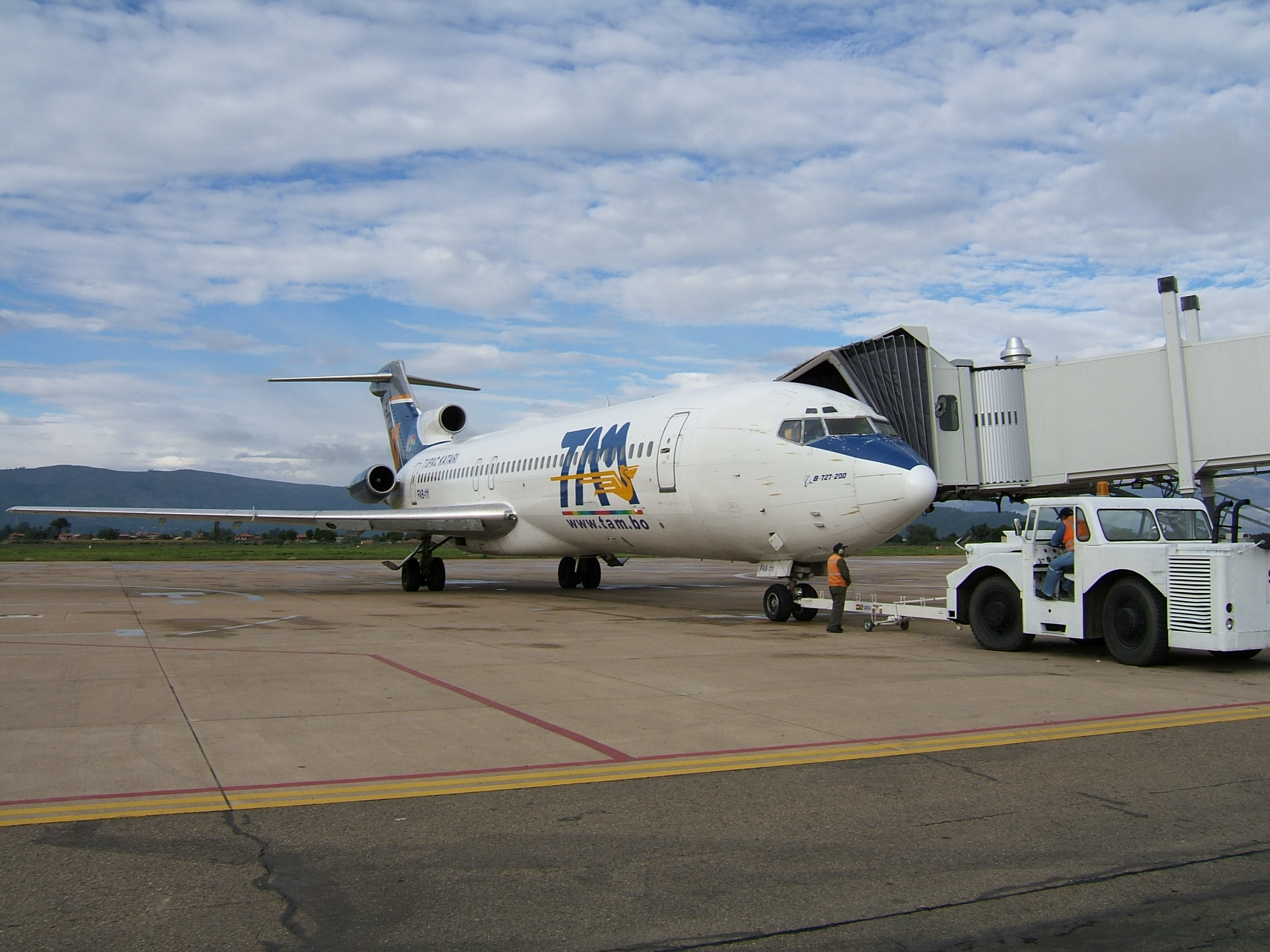 Photo from a TAM B727-200 at Cochabamba's airport